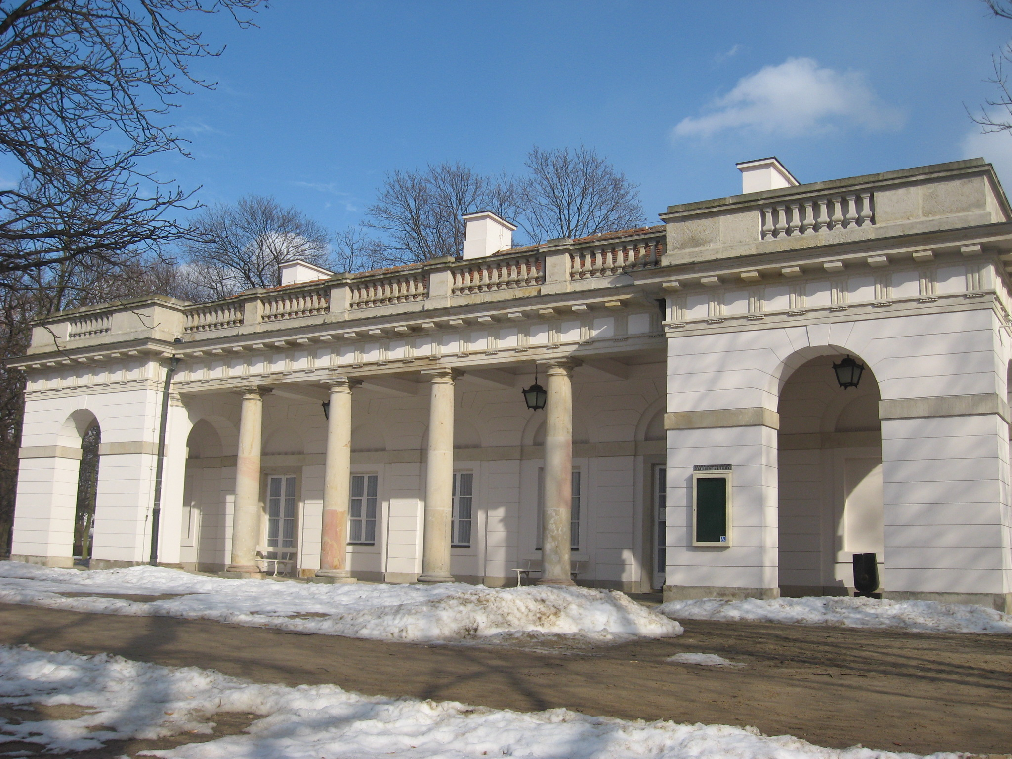 Old Guard-house - front